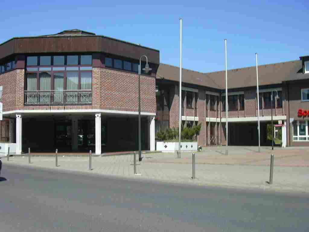 Rathaus Inden Own Work papa1234 2006-07-14